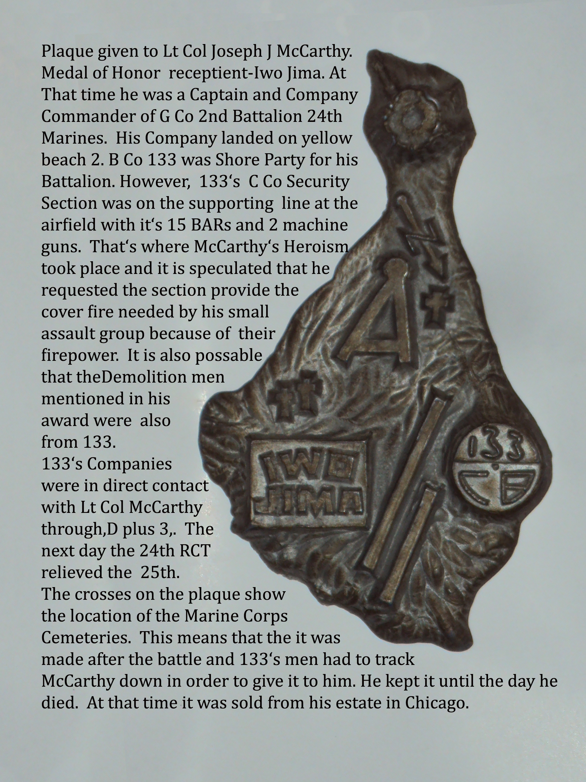 133 Plaque from the estate of Lt. Col. Josepj J. McCarthy. It is zinc and probably cast from expended ammunition clips.